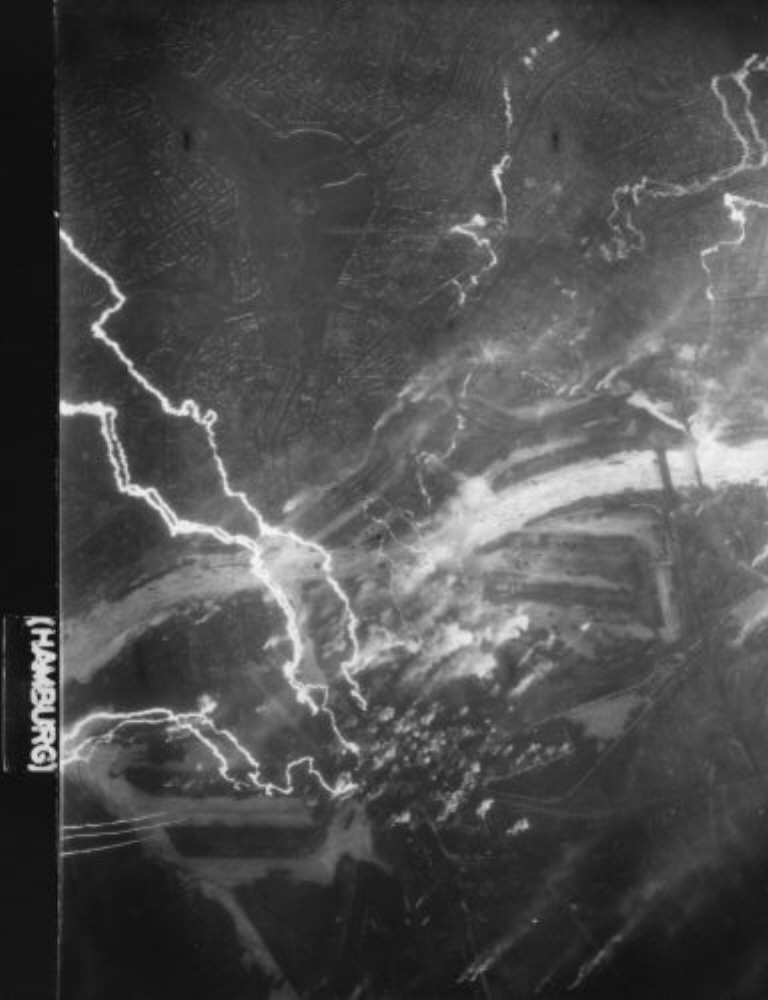 Hamburg harbor